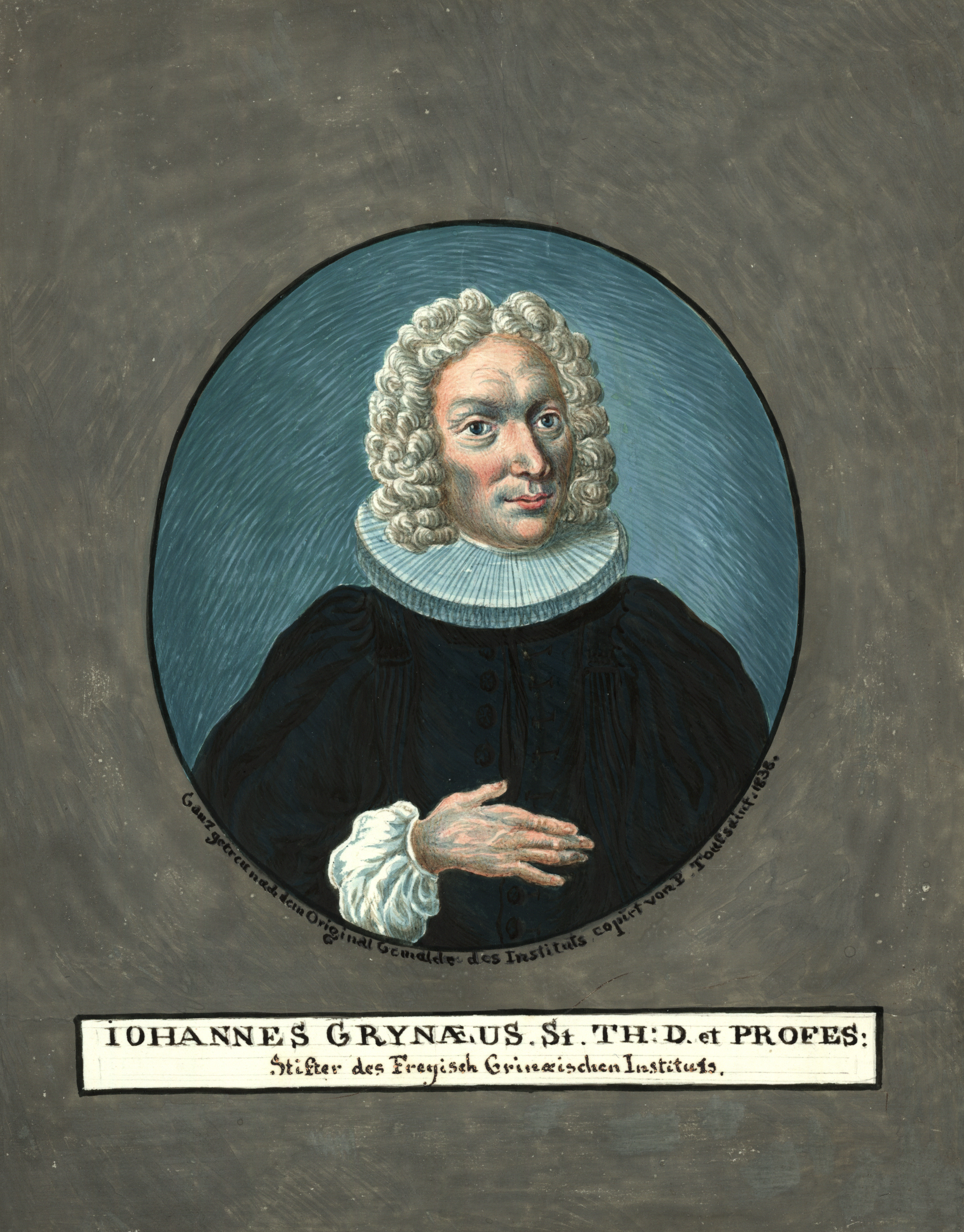 Portrait of Johann Ludwig Frey (1682-1759), watercolor